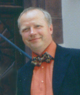 Michael Kausch, actor (only picture detail)